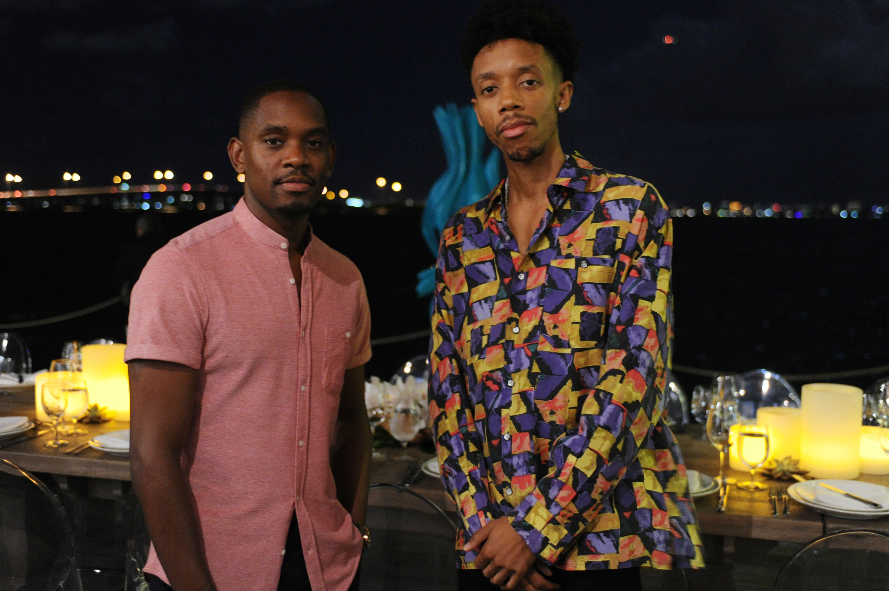 Aml Ameen & Darrell Britt-Gibson at the Miami International Film Festival GEMS presentation of "Soy Nero"